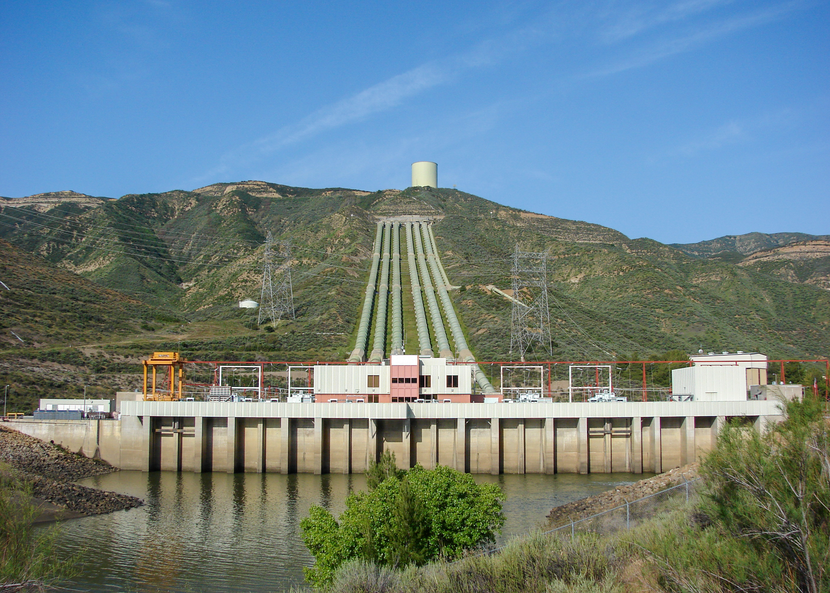 Taken by a power plant worker facing east from the Elderberry Forebay.